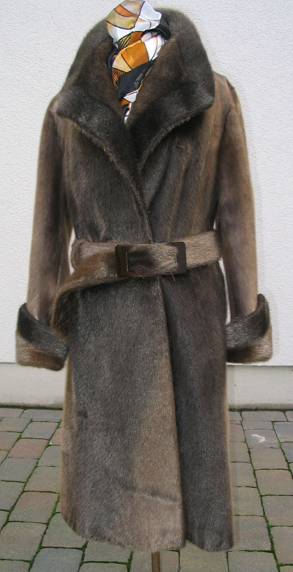 Blueback coat, dyed. Made 1975 in Germany.